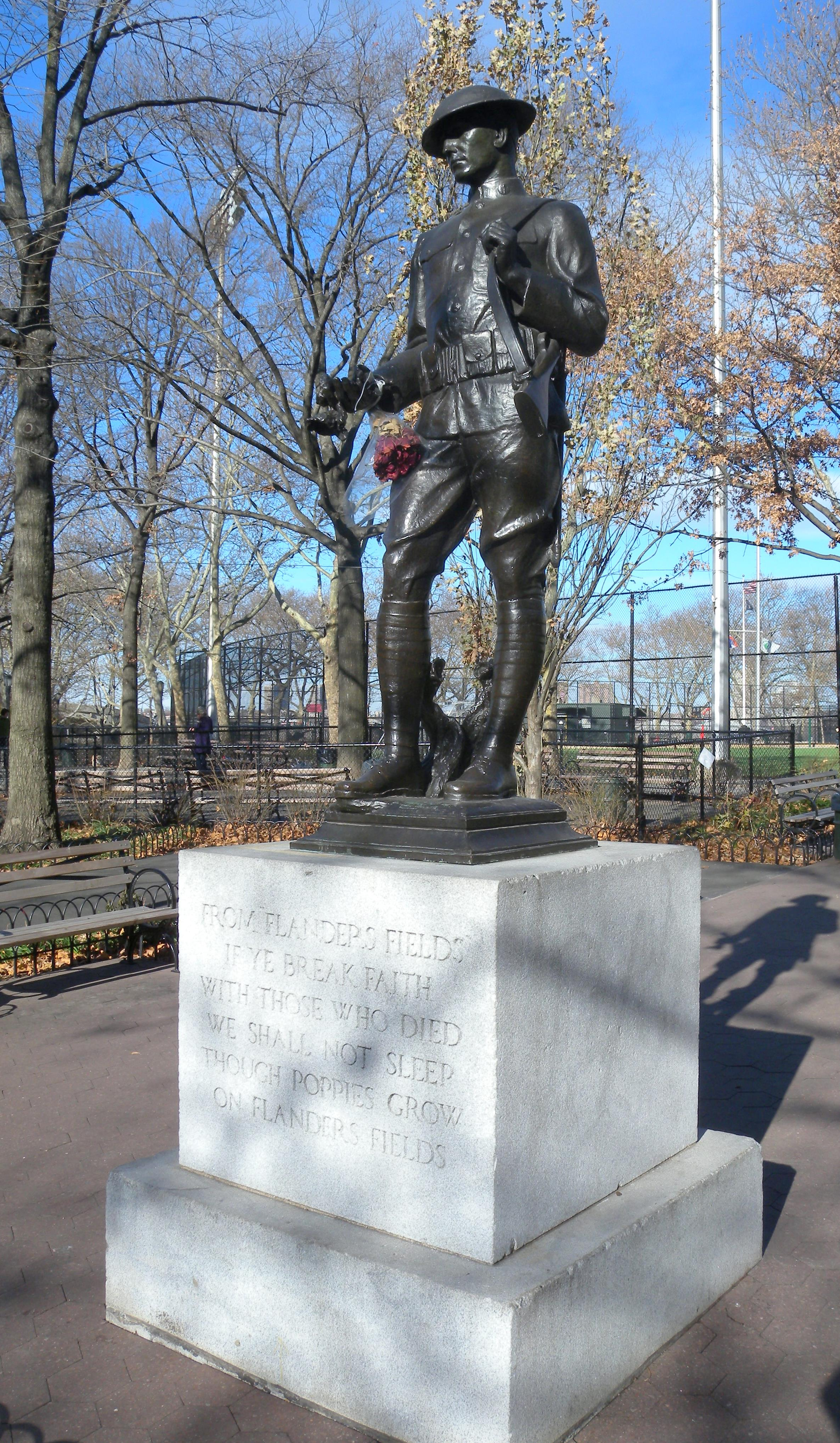 Looking northwest at Flanders Field doughboy statue on a sunny morning. See also File:New-York-City,-DeWitt-Clinton-Park,-Entrance-(Oct-02,-2010).jpg